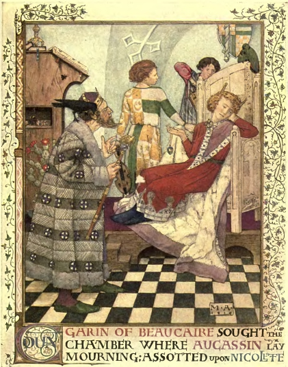 Illustration for Aucassin et Nicolette (1910) by Maxwell Armfield / Bibliography : Eugene Mason (Editor & translator) (ill. Maxwell Armfield), Aucassin and Nicolette, London ; New York, J.M. Dent & Sons, Ltd. ; E.P. Dutton & Co., coll. « Some tales of old romance series », 1910, VIII-72 p., 6 p. ill. in color ; 19 cm (OCLC 12587228)